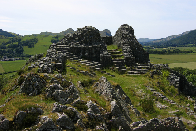 The derelict southwest tower of Castell y Bere near Llanfihangel-y-Pennant, Wales.